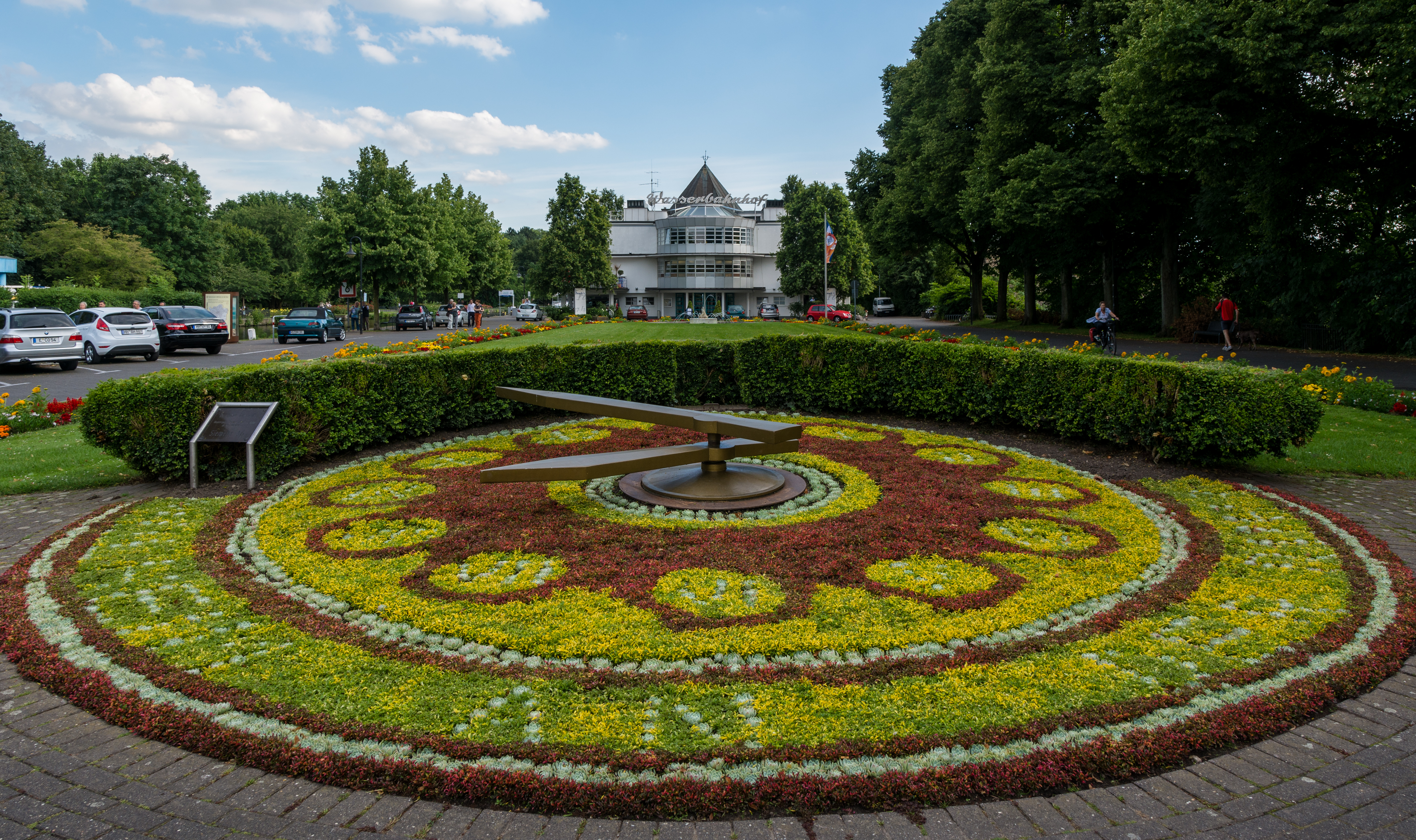 Flower clock at "Wasserbahnhof" in Mülheim